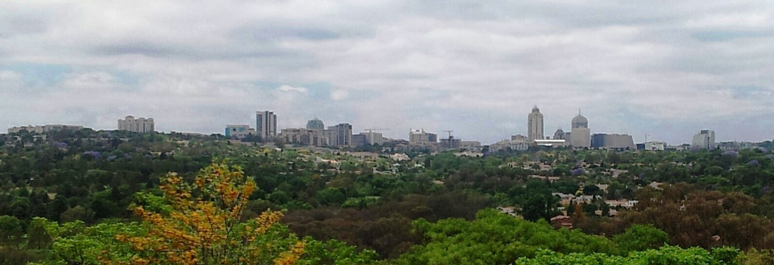 View of Sandton buildings